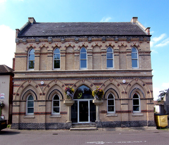 Market Hall. The former Market Hall. Gothic in polychromatic brick of about 1870 with assembly room above.